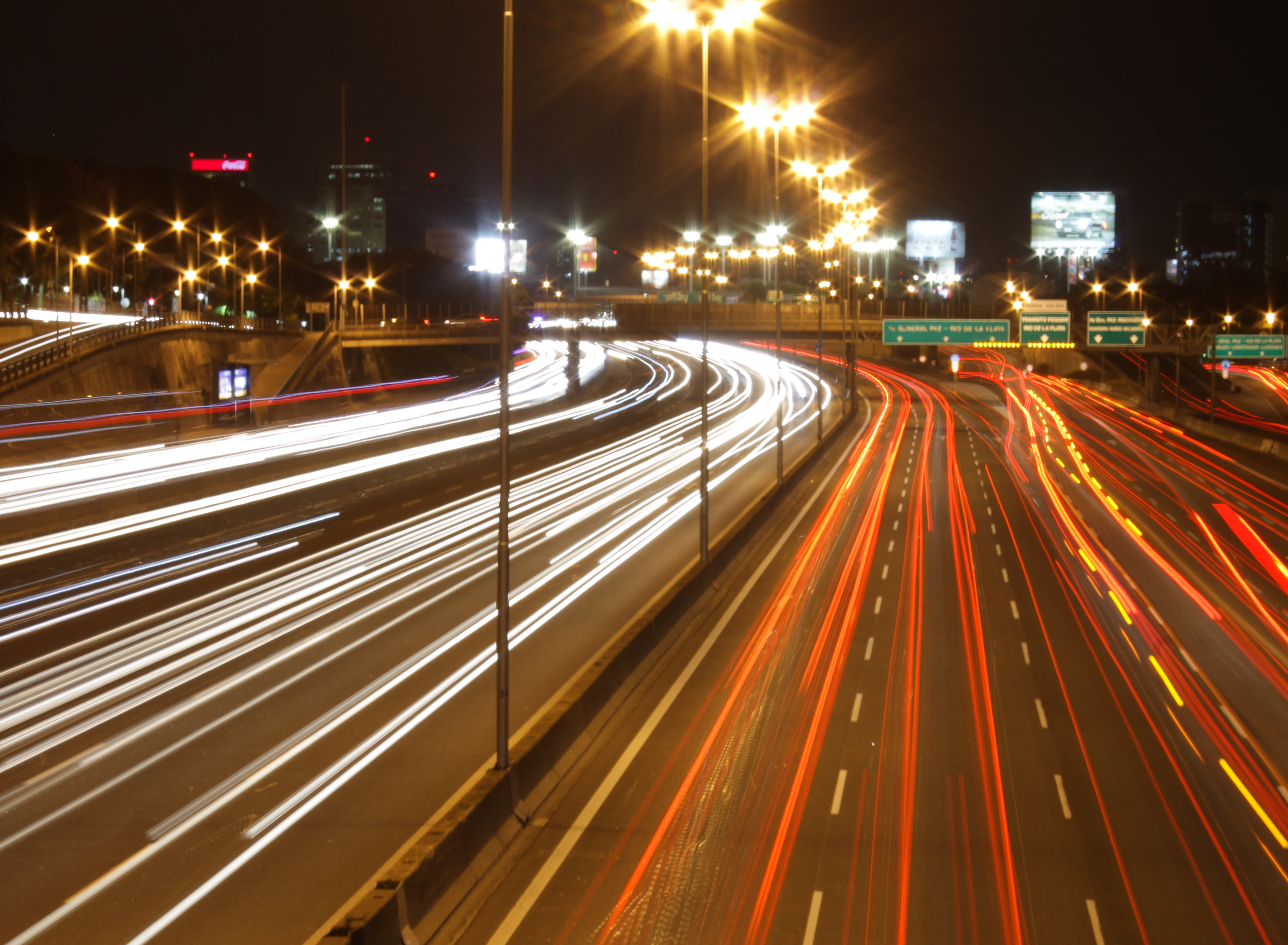 Panamericana freeway in Florida, Buenos Aires Province